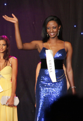 Miss Ghana 2008 Frances Takyi-Mensah during Miss World 08 in Johannesburg